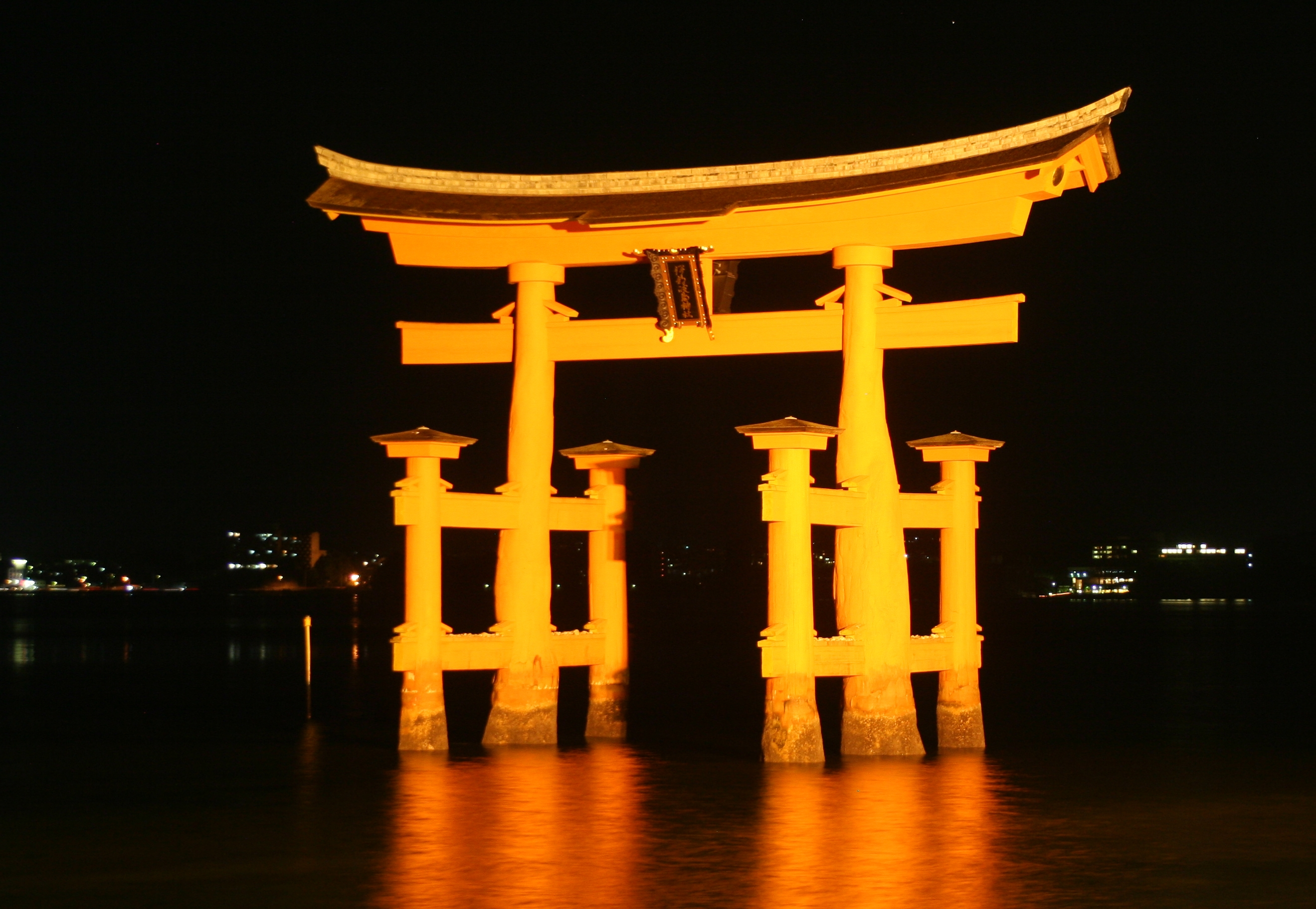 Torii at Itsukushima Shrine, Miyajima Island near Hiroshima, Japan. Night view.